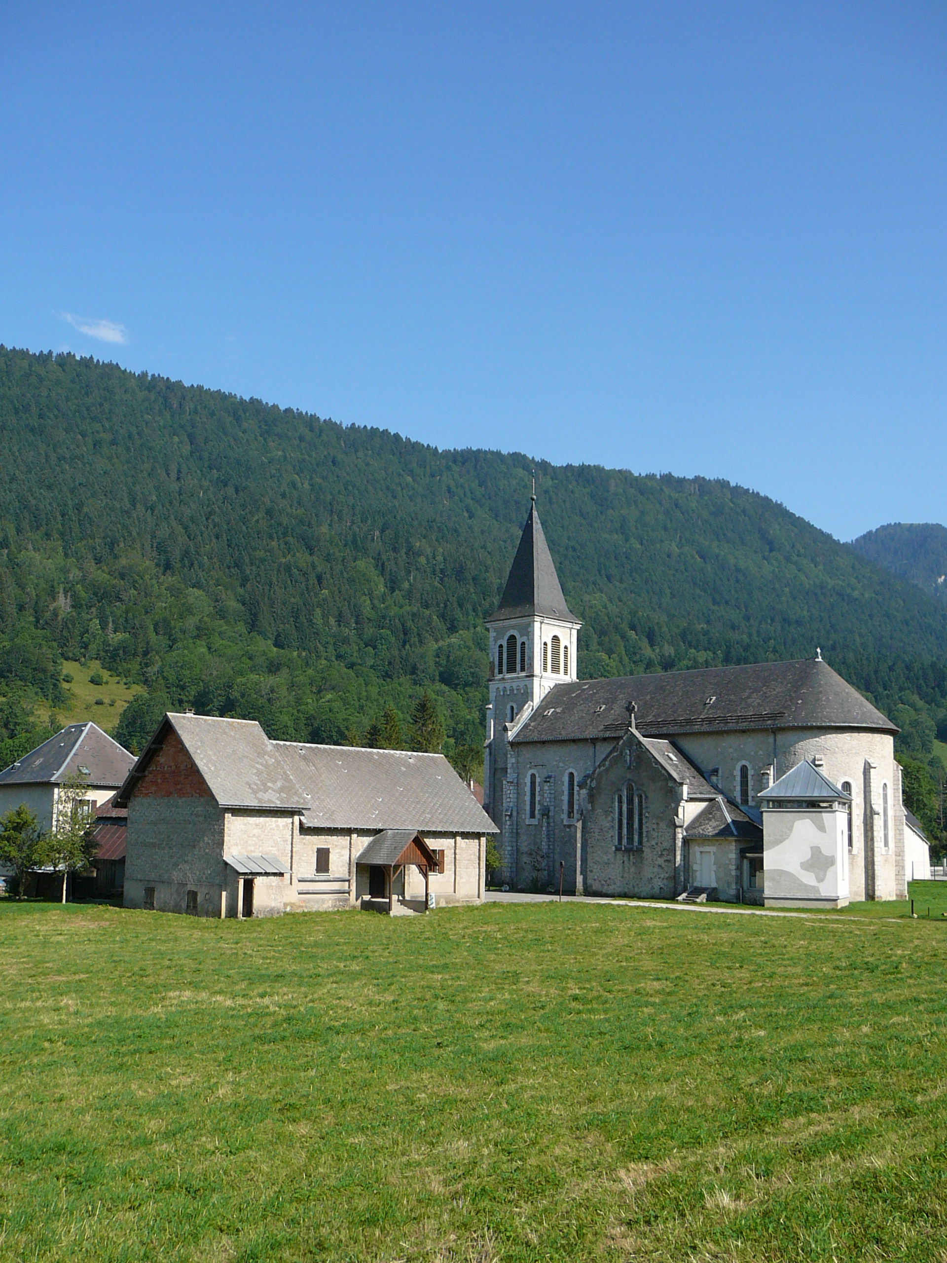 Church of Saint-Hugues-de-Chartreuse, in the commune of Saint-Pierre-de-Chartreuse